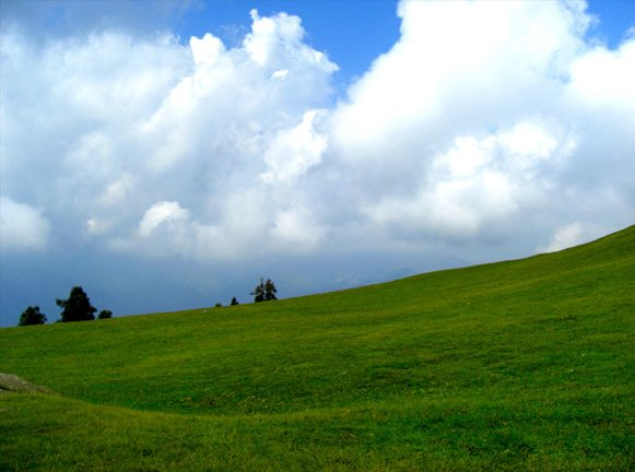 For Toli pir wikipedia gallery